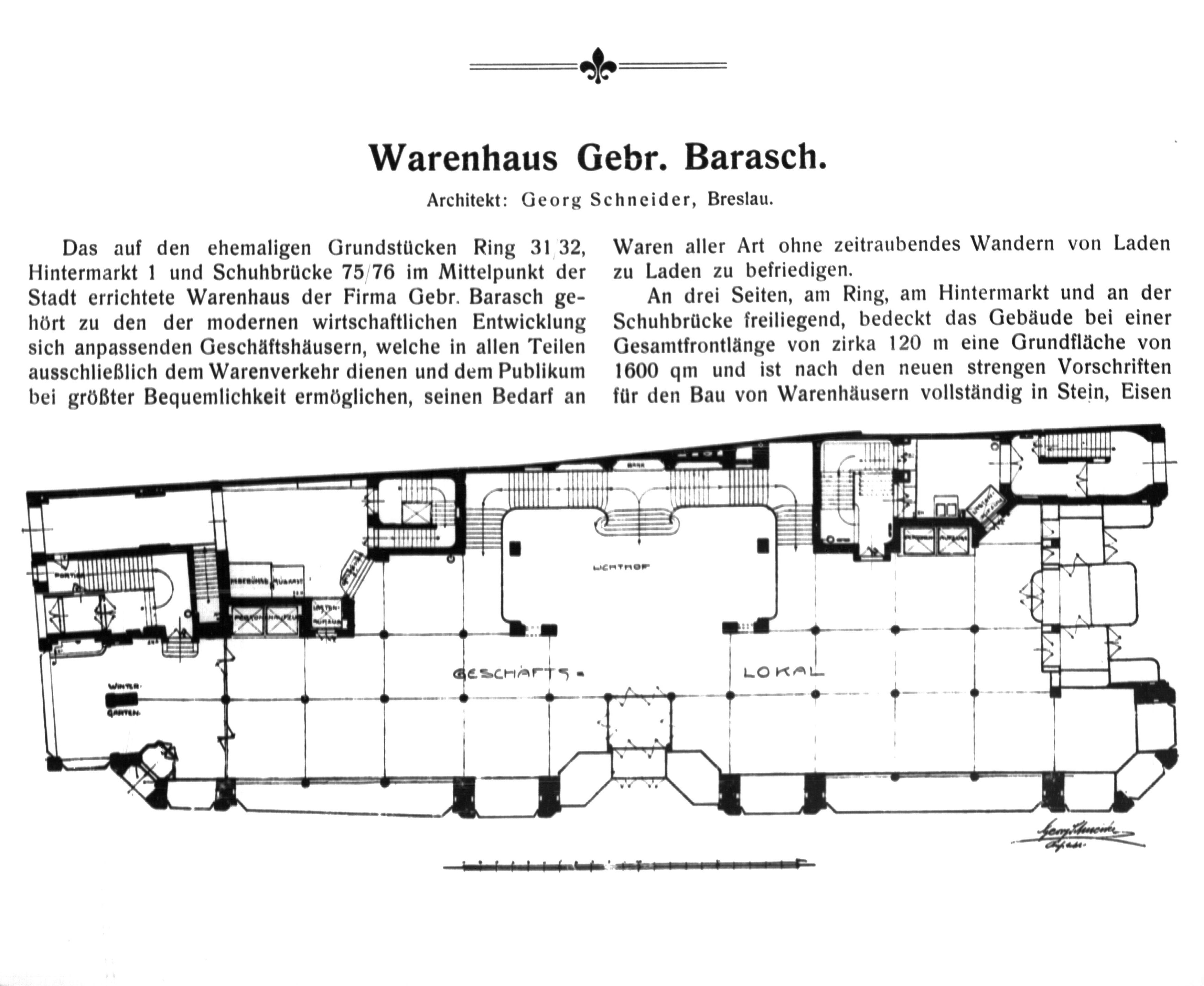 Department store Gebr. Barasch, Breslau / Wrocław, opened 1904